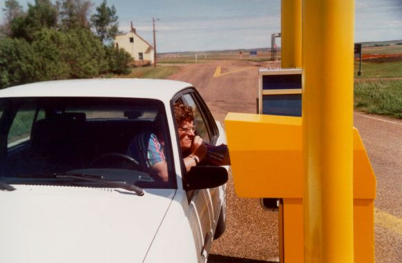 Person using the speaker identification system at the Scobey-Coronach border station